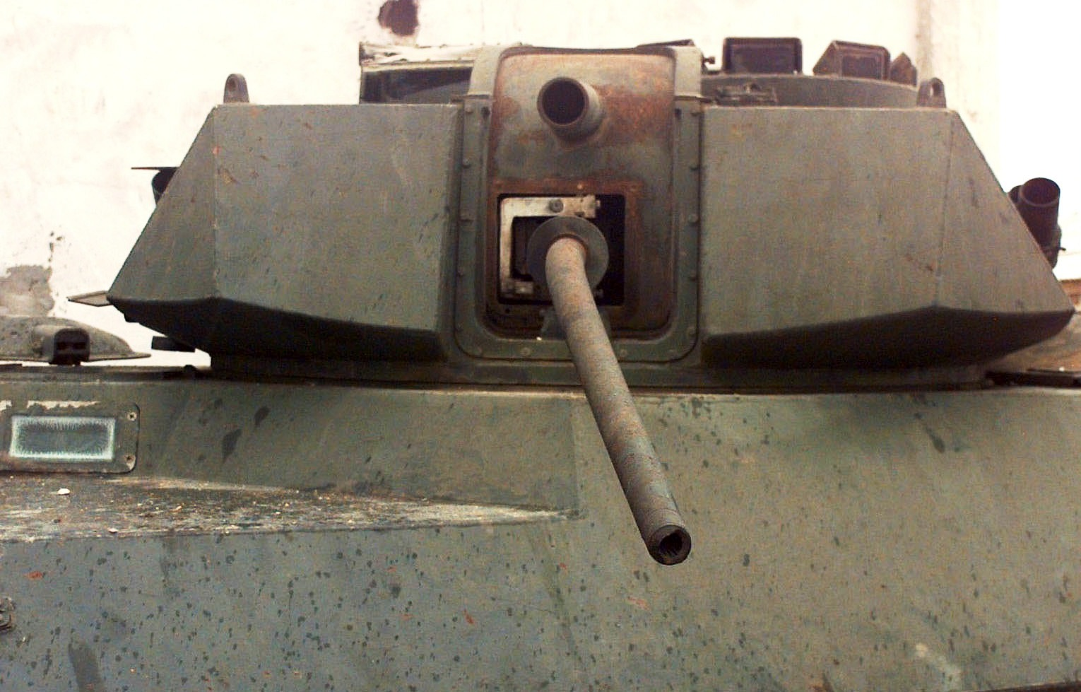 Close-up shot of the gun turret of a Somali, Italian made, Fiat-Oto Melara Type 6616 Armored Car. The bent gun turret points down and to the right. It was seized from Somali Warlord General Aideed's weapons cantonment area.